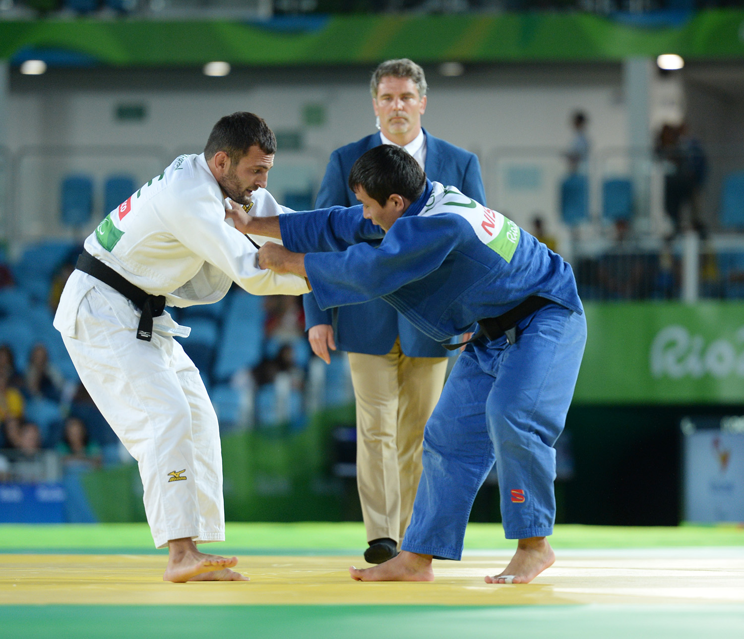 Judo at the 2016 Summer Paralympics – Men's 66 kg, Mustafayev vs Nigmatov